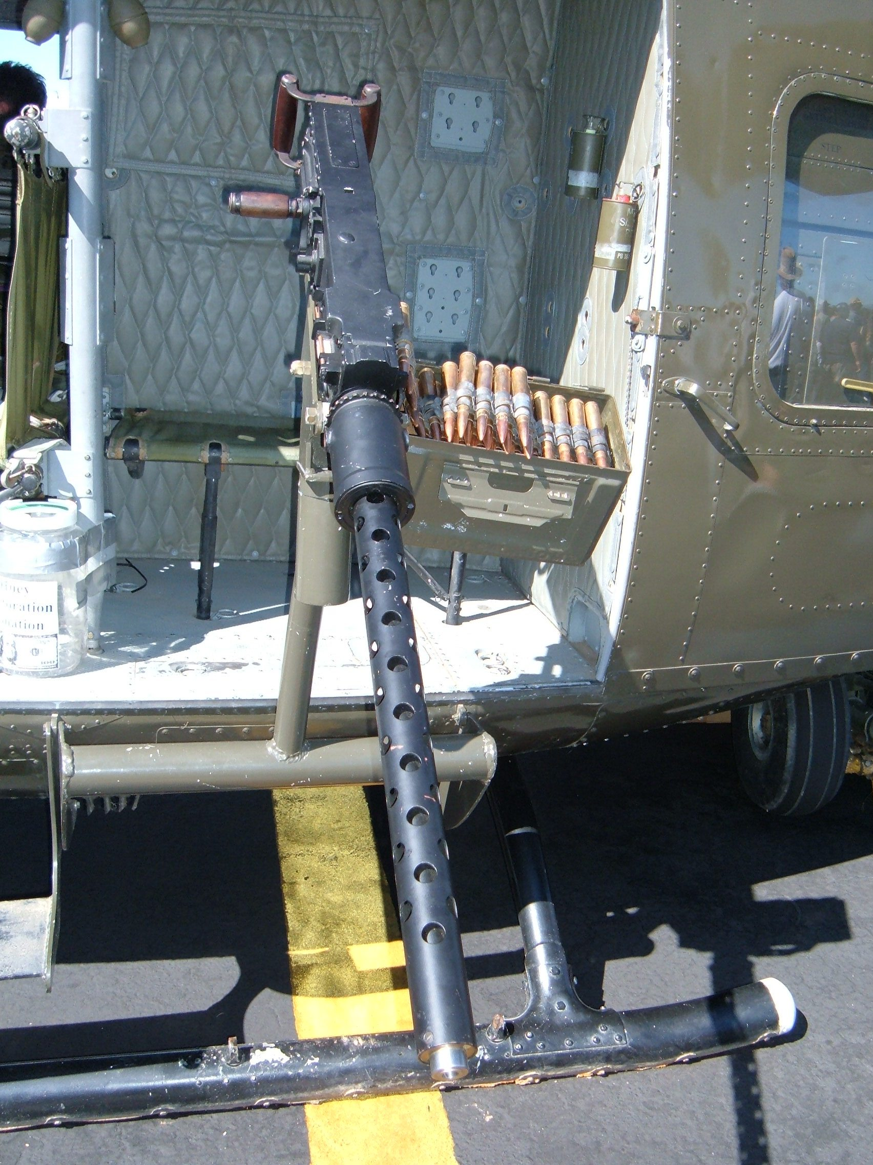 XM213/M213 .50 cal. machine gun mounted on the left side of UH-1H Iroquois "Huey" helicopter "Lucy in the Sky with Diamons" on static display at the Wings over Wine Country 2007 air show at the Charles M. Schulz - Sonoma County Airport in Sonoma County, California.